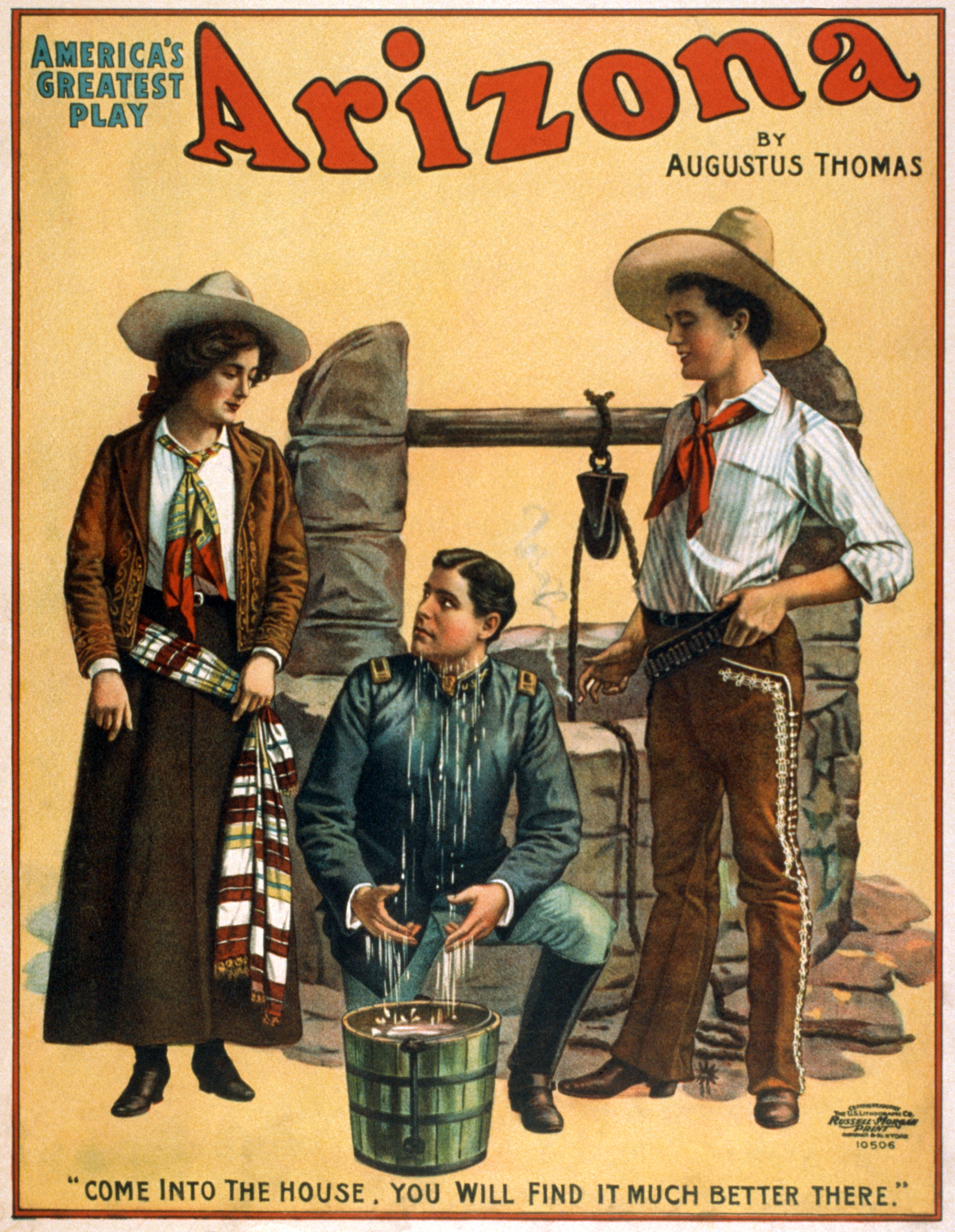 Circa 1907 poster for the play Arizona, by Augustus Thomas.